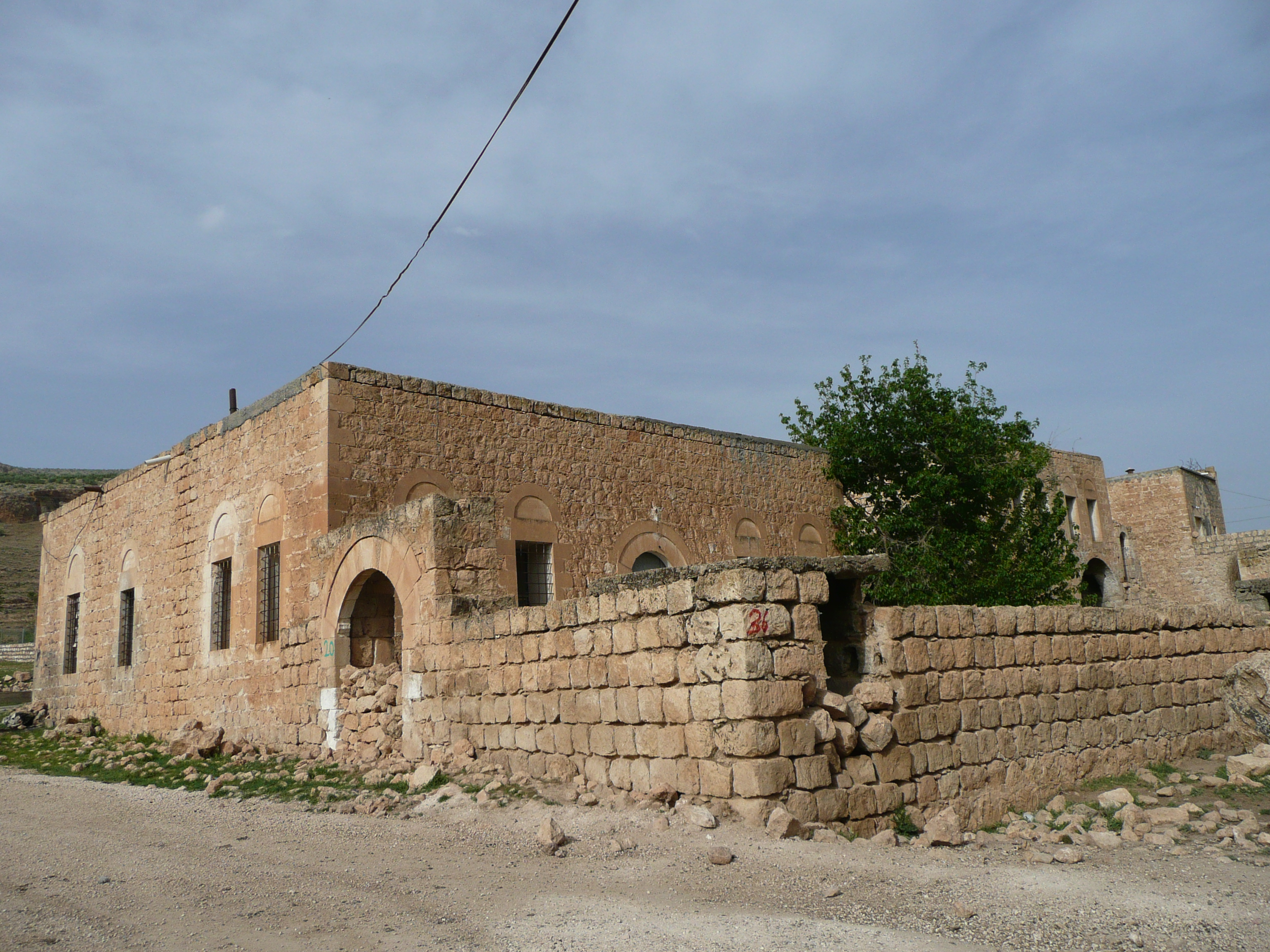 Photographs from Killit, Savur, Mardin, Turkey